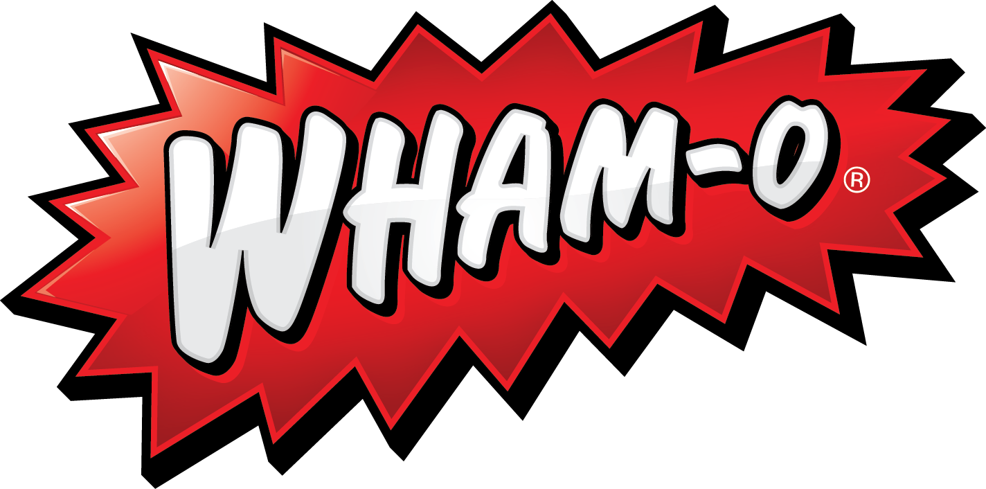 Wham-O company logo